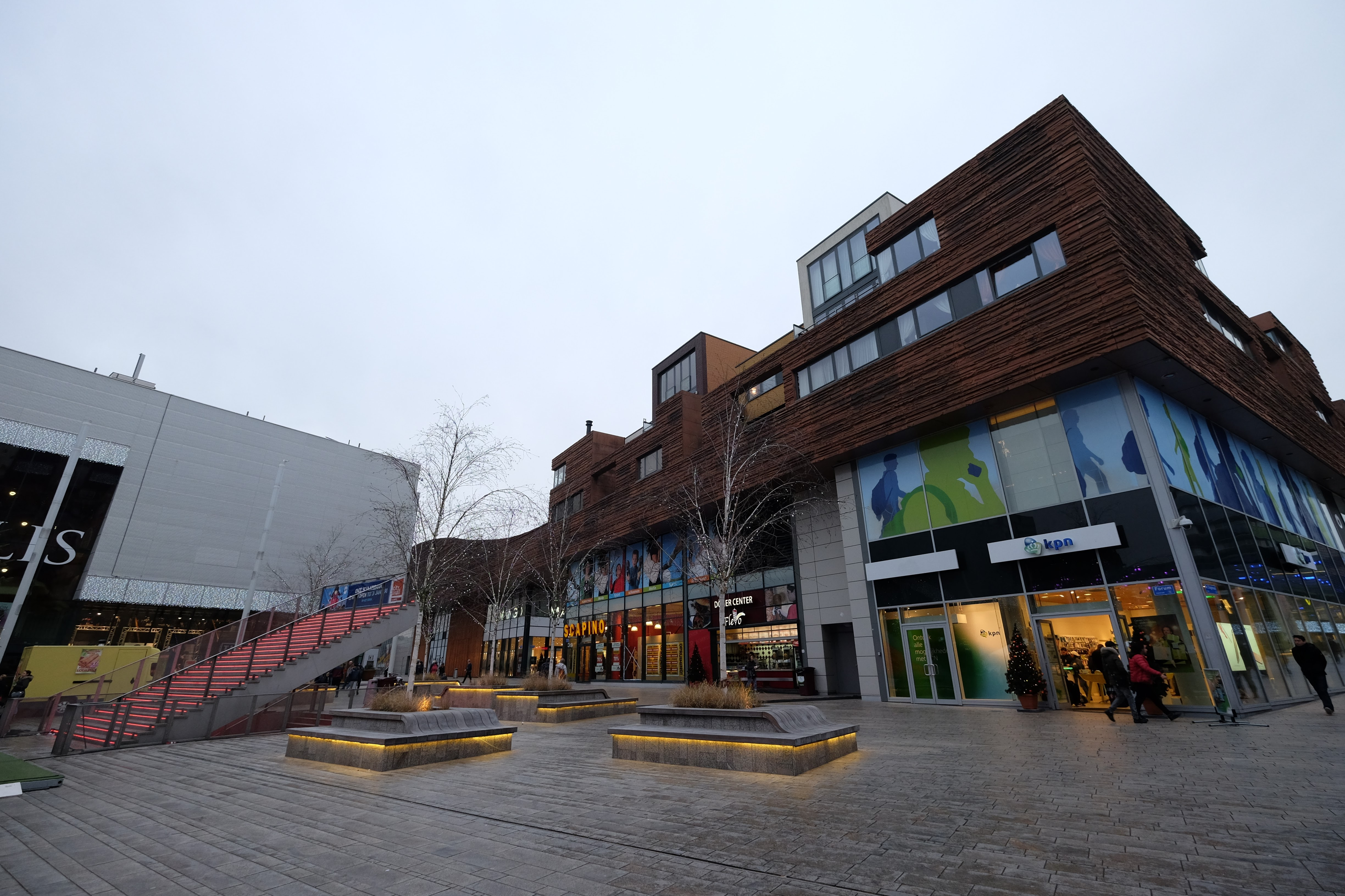 Centrum Almere Stad, Almere, Netherlands